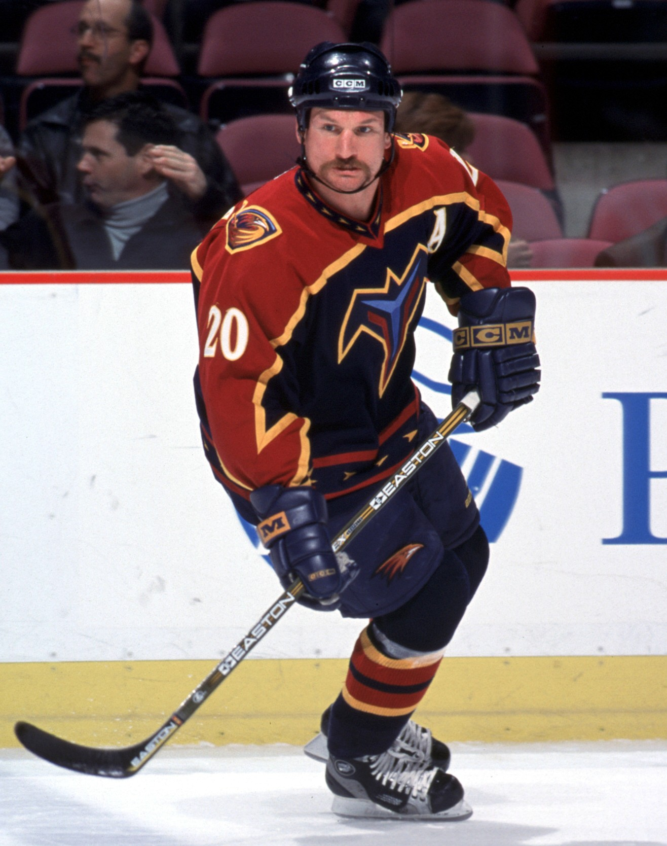 Jeff Odgers playing for the Atlanta Thrashers NHL ice hockey team.